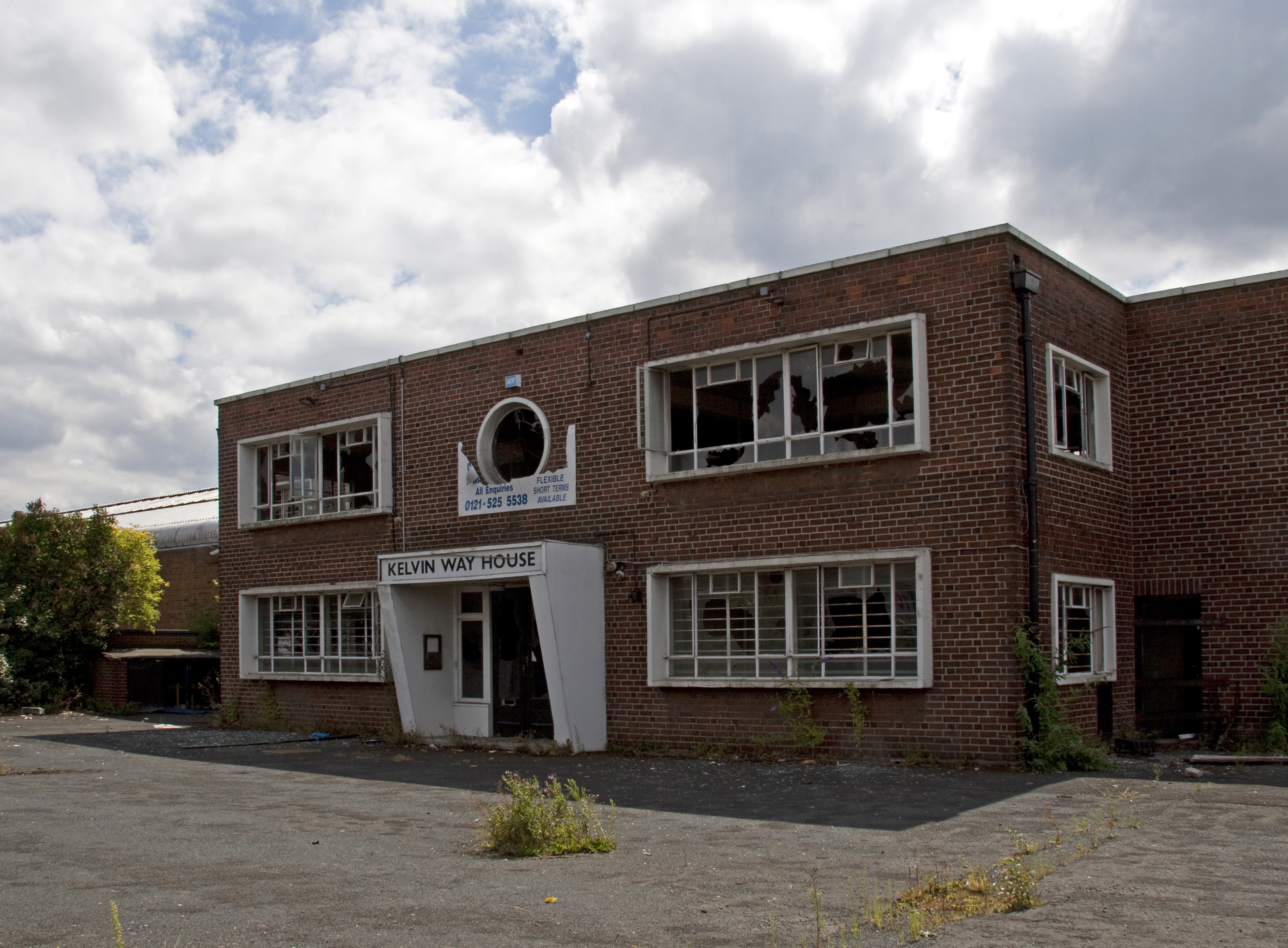 Old Jensen Motors factory, Kelvin Way, West Bromwich